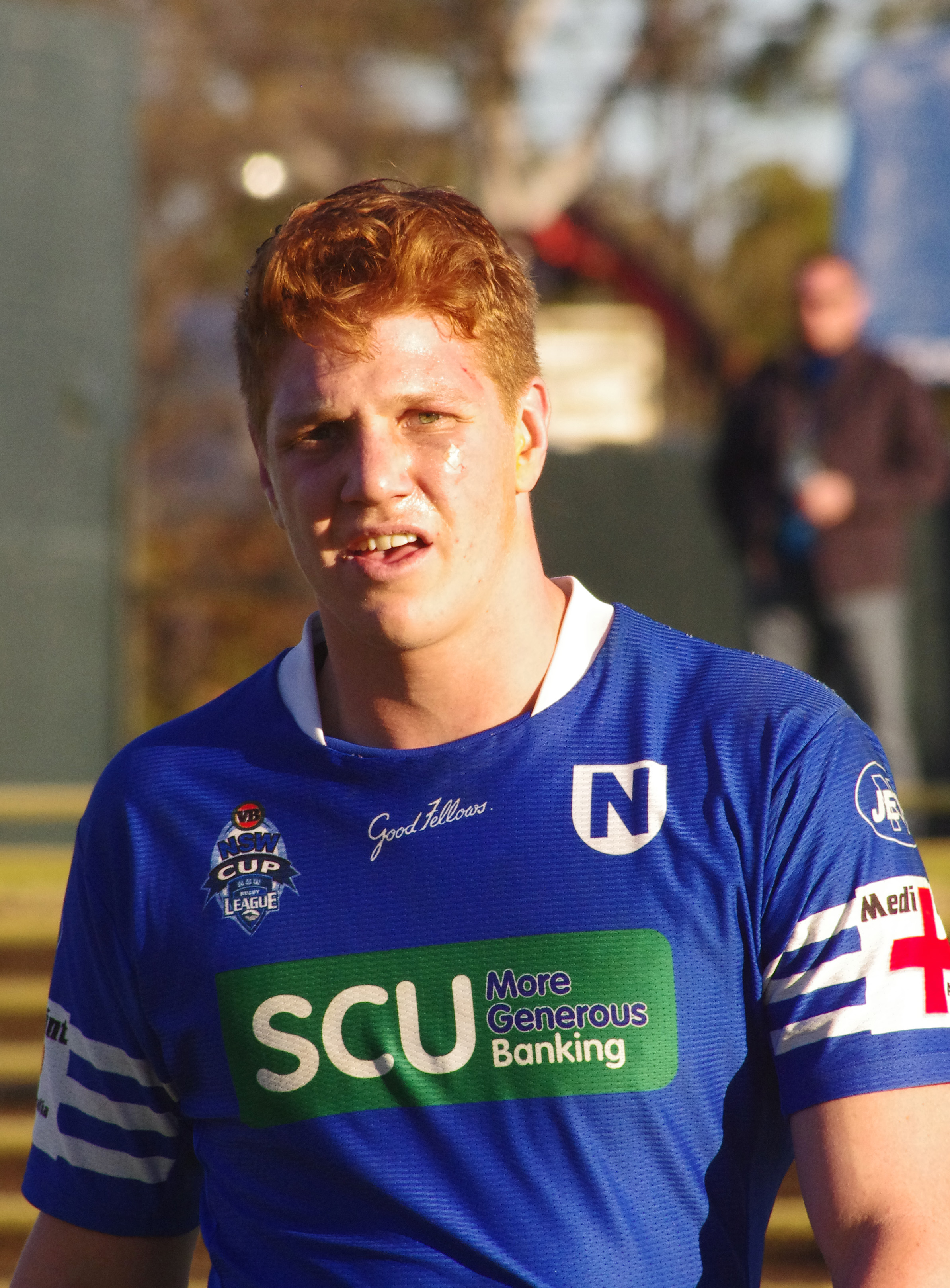 Dylan Napa